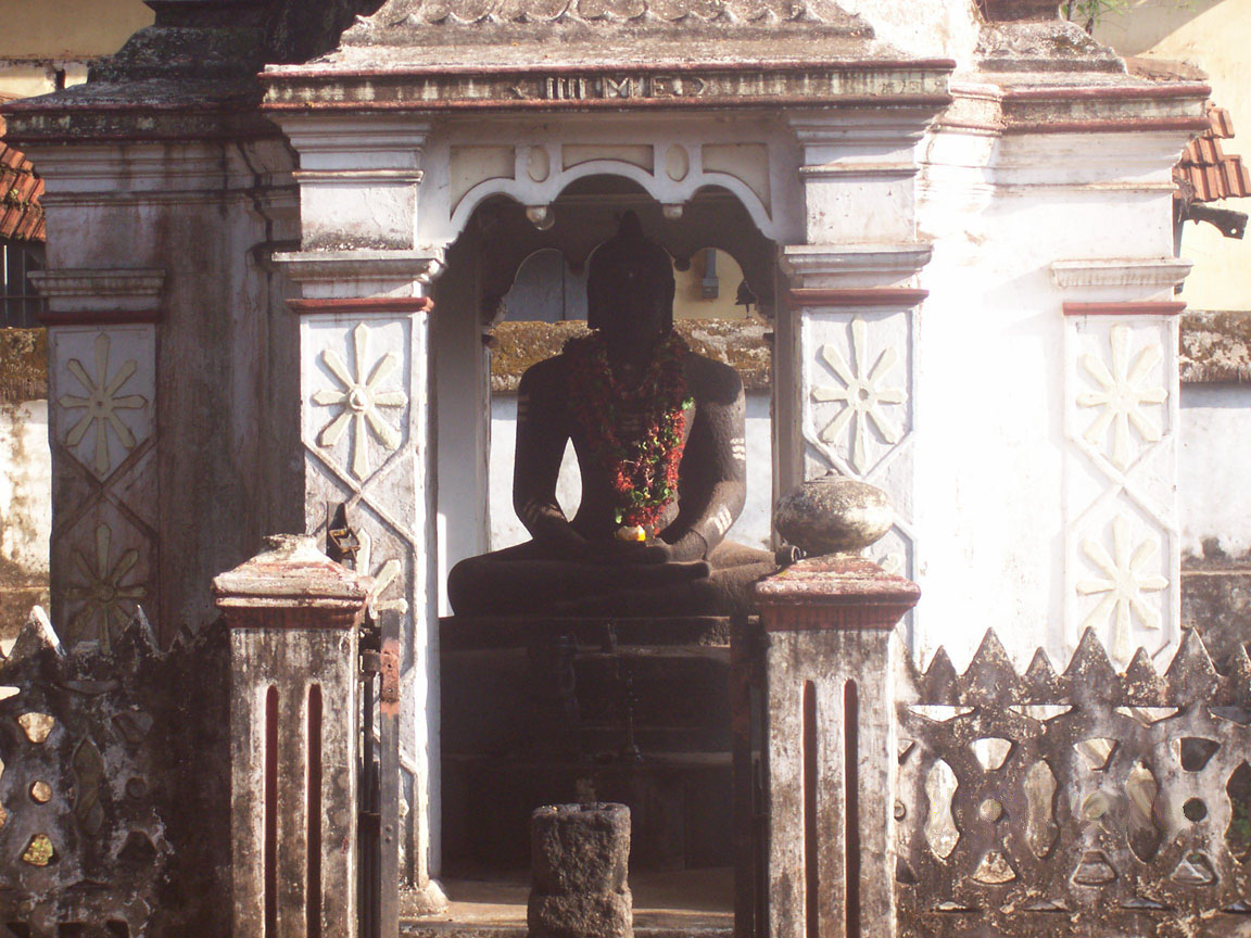 Tallest Budha statue excavated from Kerala. (at Mavelikara). This dates back to 10th Centuary.